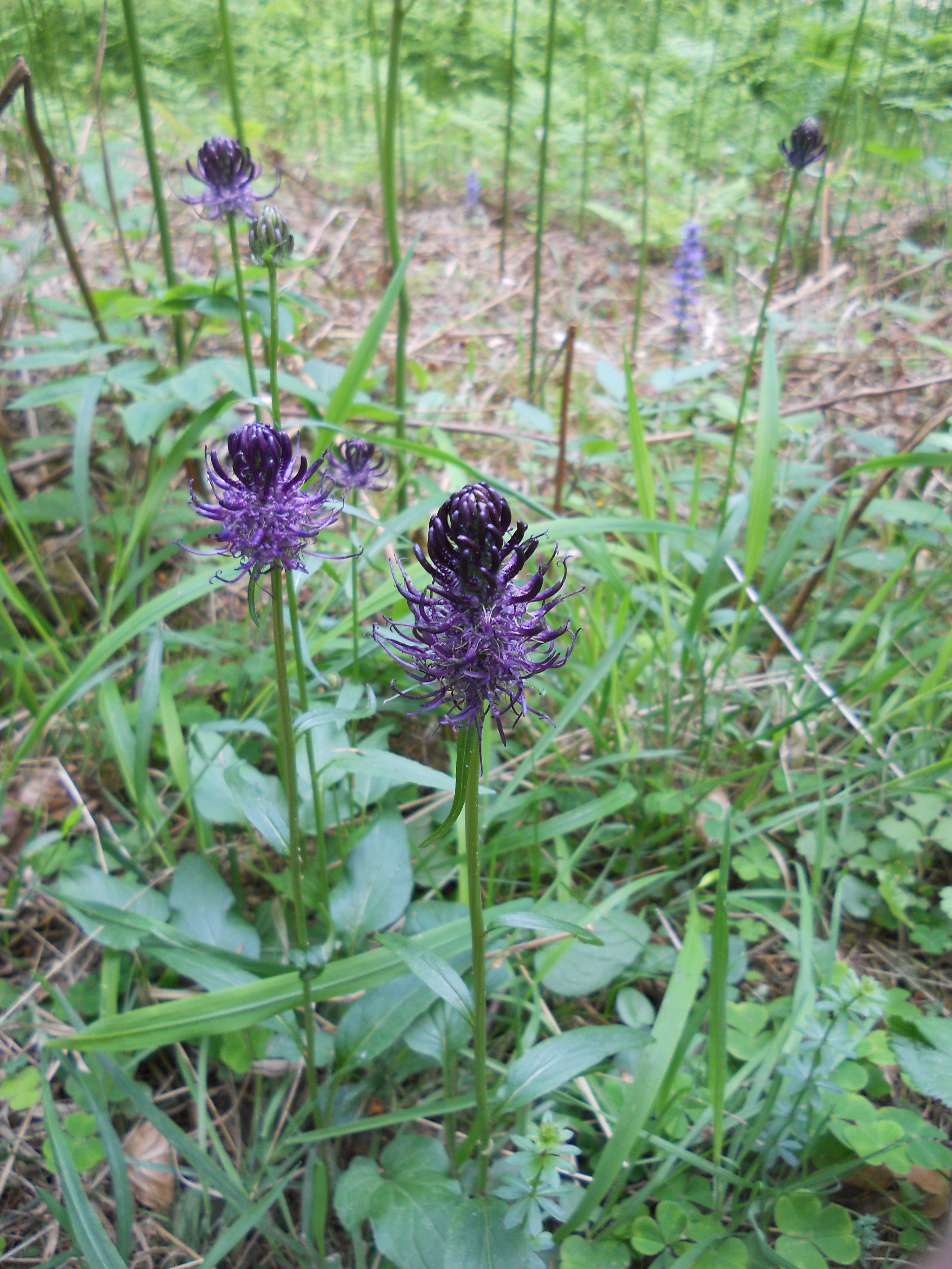 Phyteuma nigrum found along the Rheinsteig in a forested area.